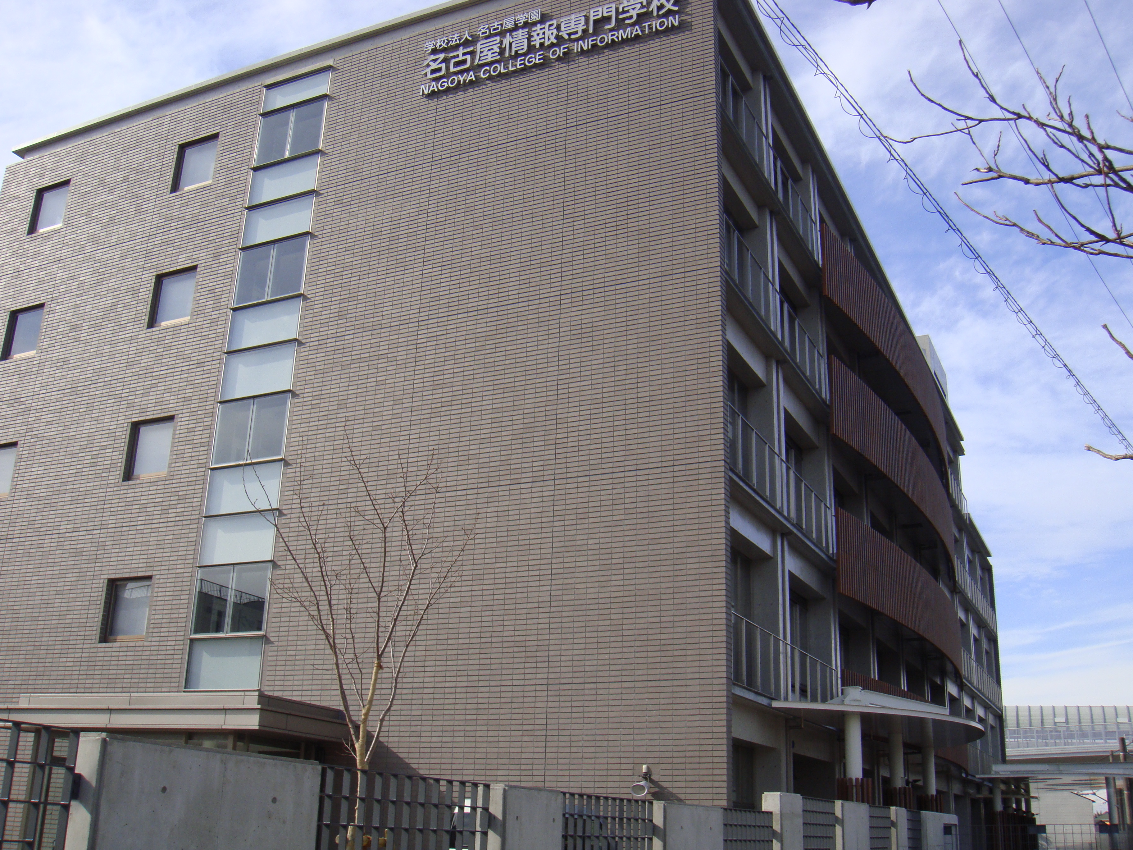 Nagoya College of Information